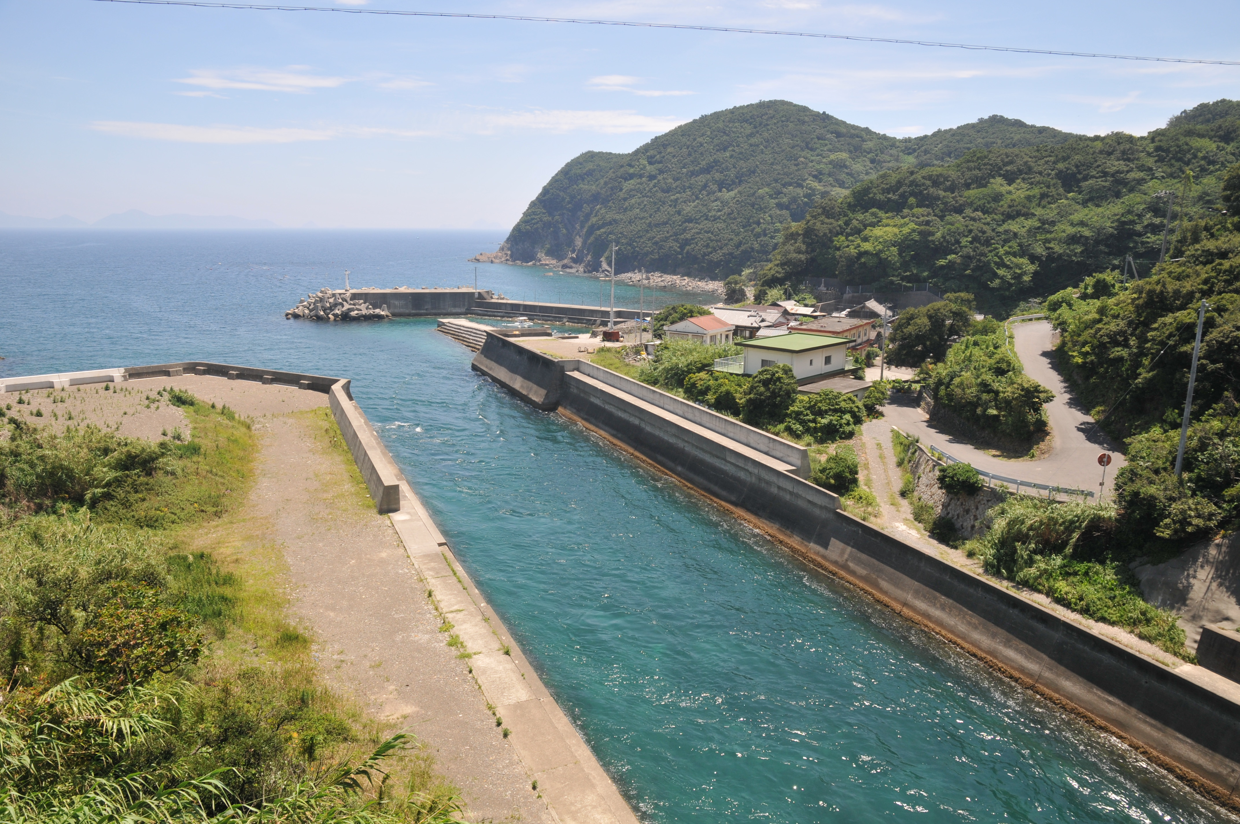 Funakoshi Canal